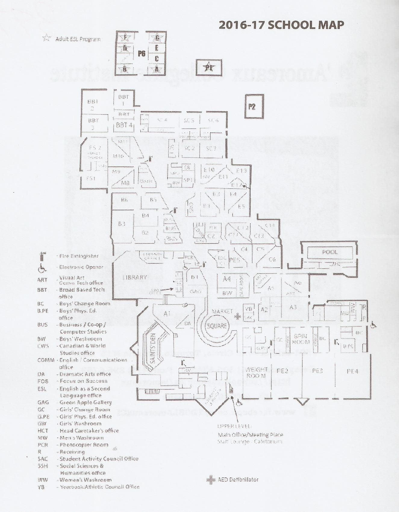 Map of the building layout, with classroom & office locations.